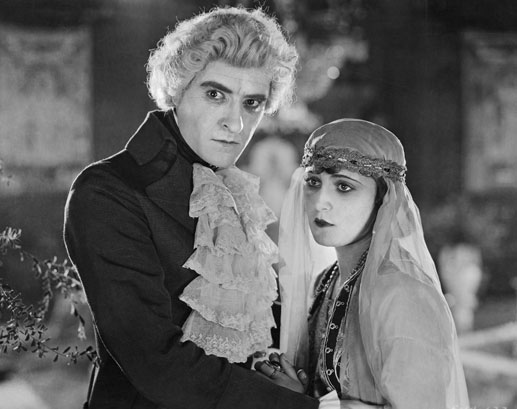 John Gilbert and Virginia Brown Faire in Monte Cristo (1922) - cropped screenshot